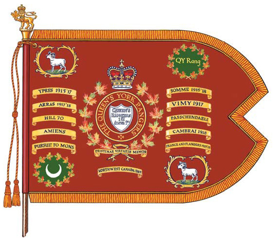 the camp flag of the Canadian Forces Primary Reserve regiment the Queen's York Rangers (1st American Regiment) of the Royal Canadian Armoured Corps